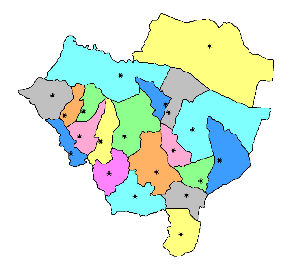 Map of Cordillera department, Paraguay.